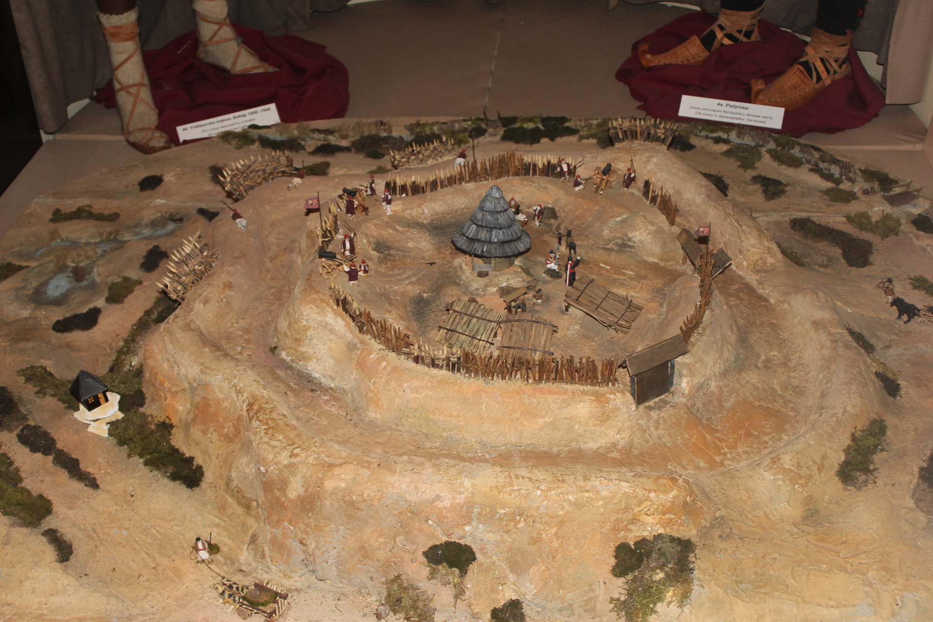 Model of sconce of battle of Loznica